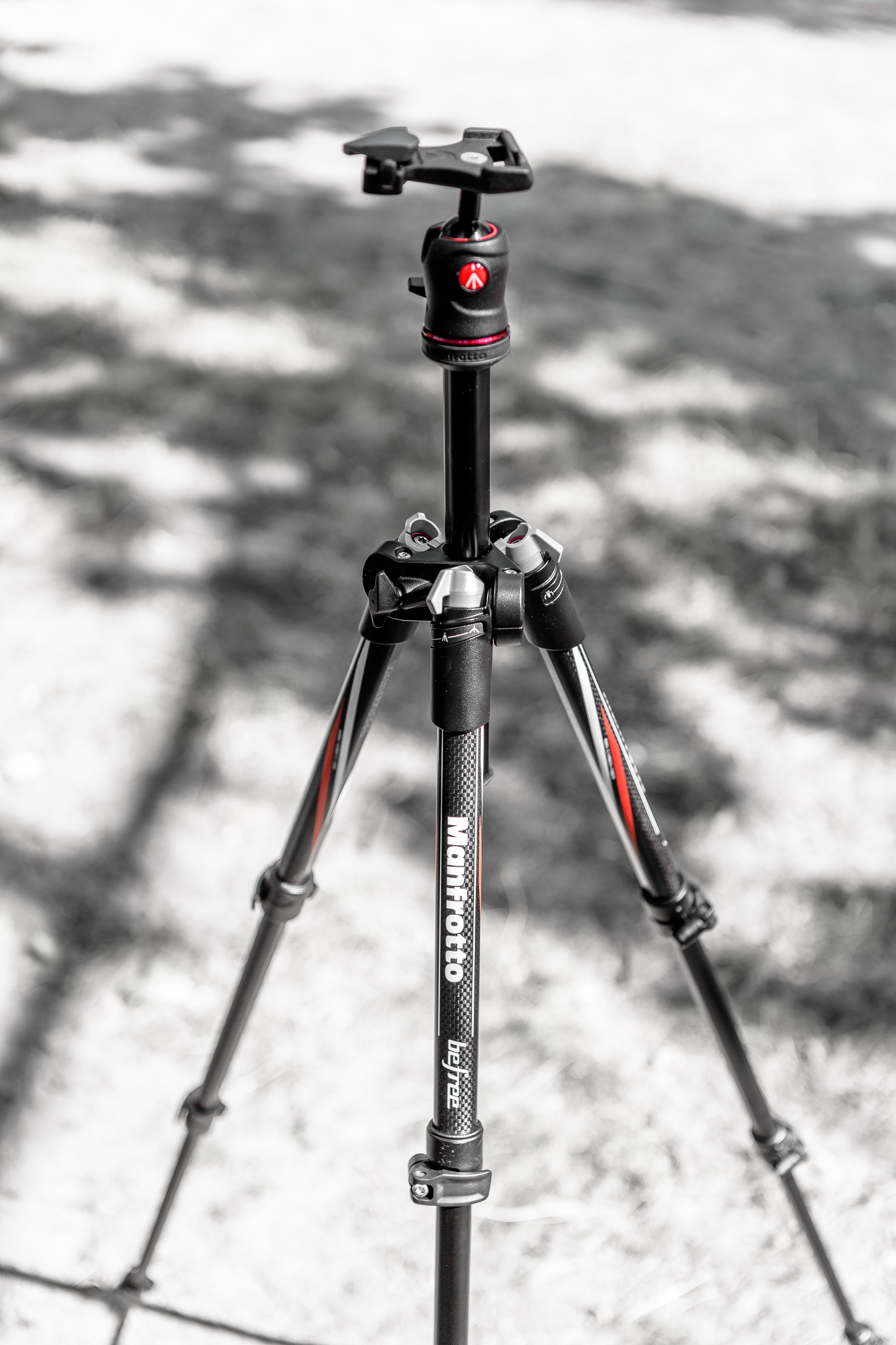 Tripod Befree by Manfrotto